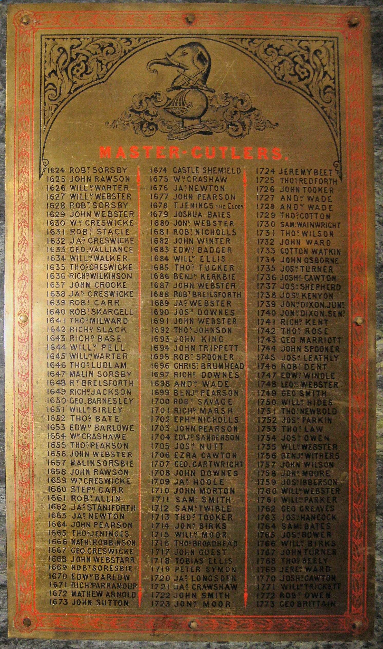 Plaque in Cutlers Hall Sheffield, listing Master Cutlers.